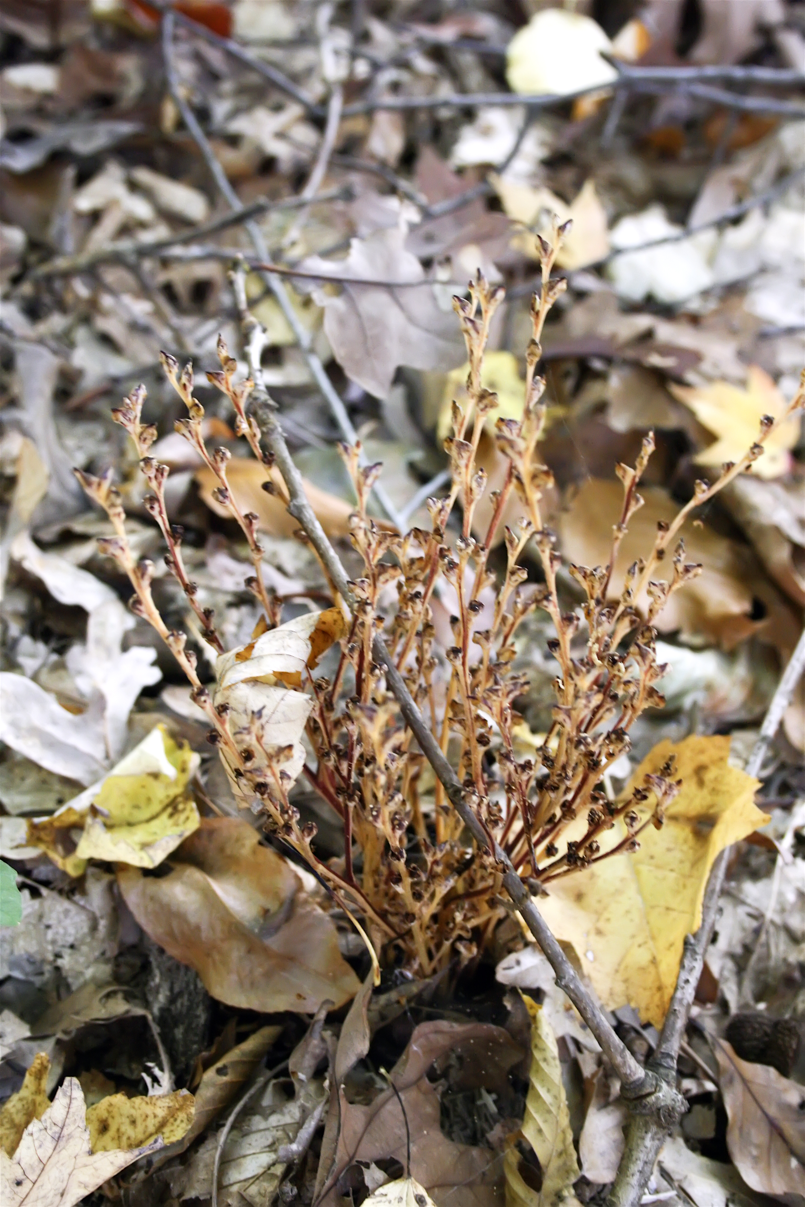 Beechdrops (Epifagus virginiana) in Al Sabo located in Texas Township, Michigan.